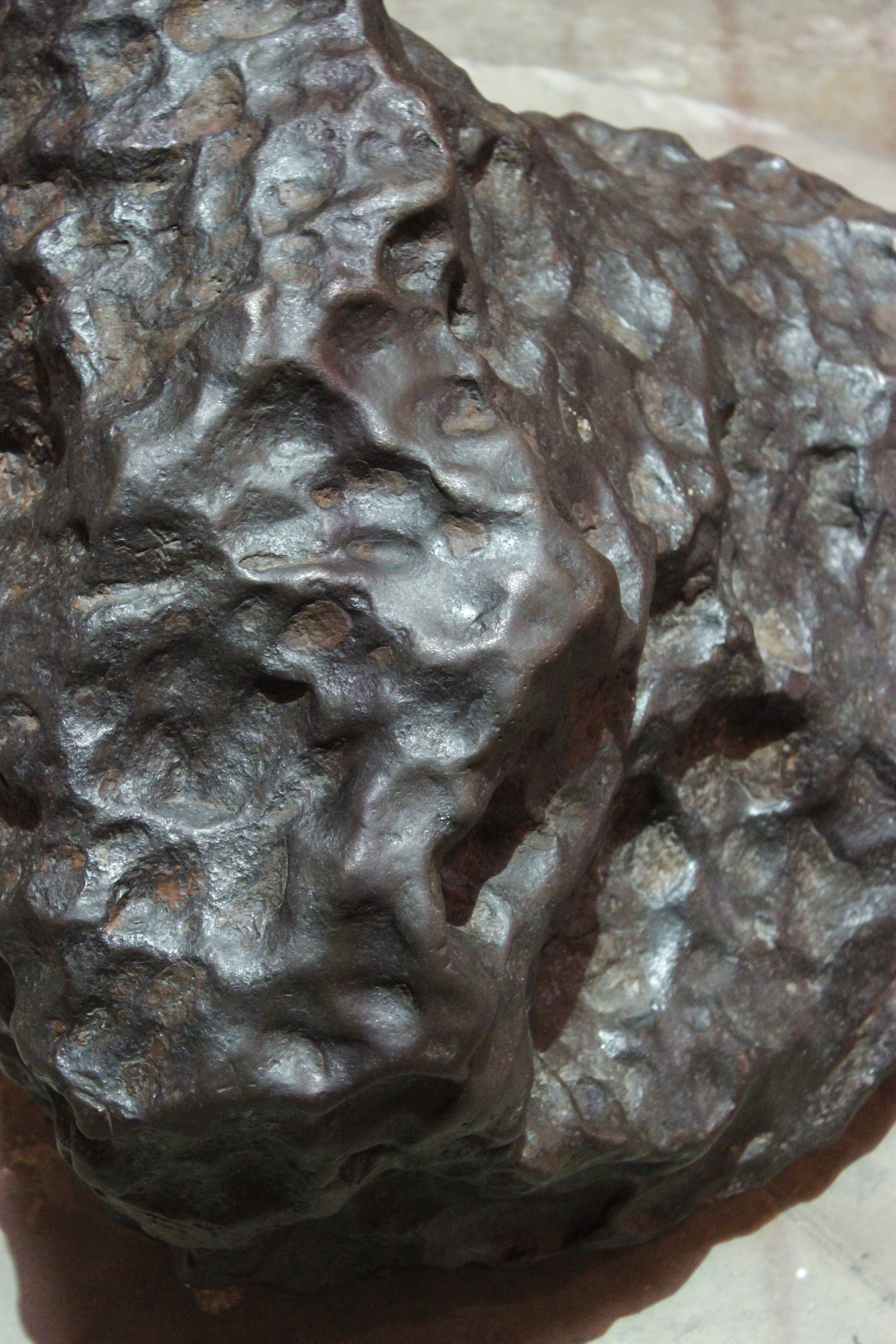 Main mass of the Santa Rosa meteorite, ataxite, 411 kg. Museo Nacional de Bogotá.